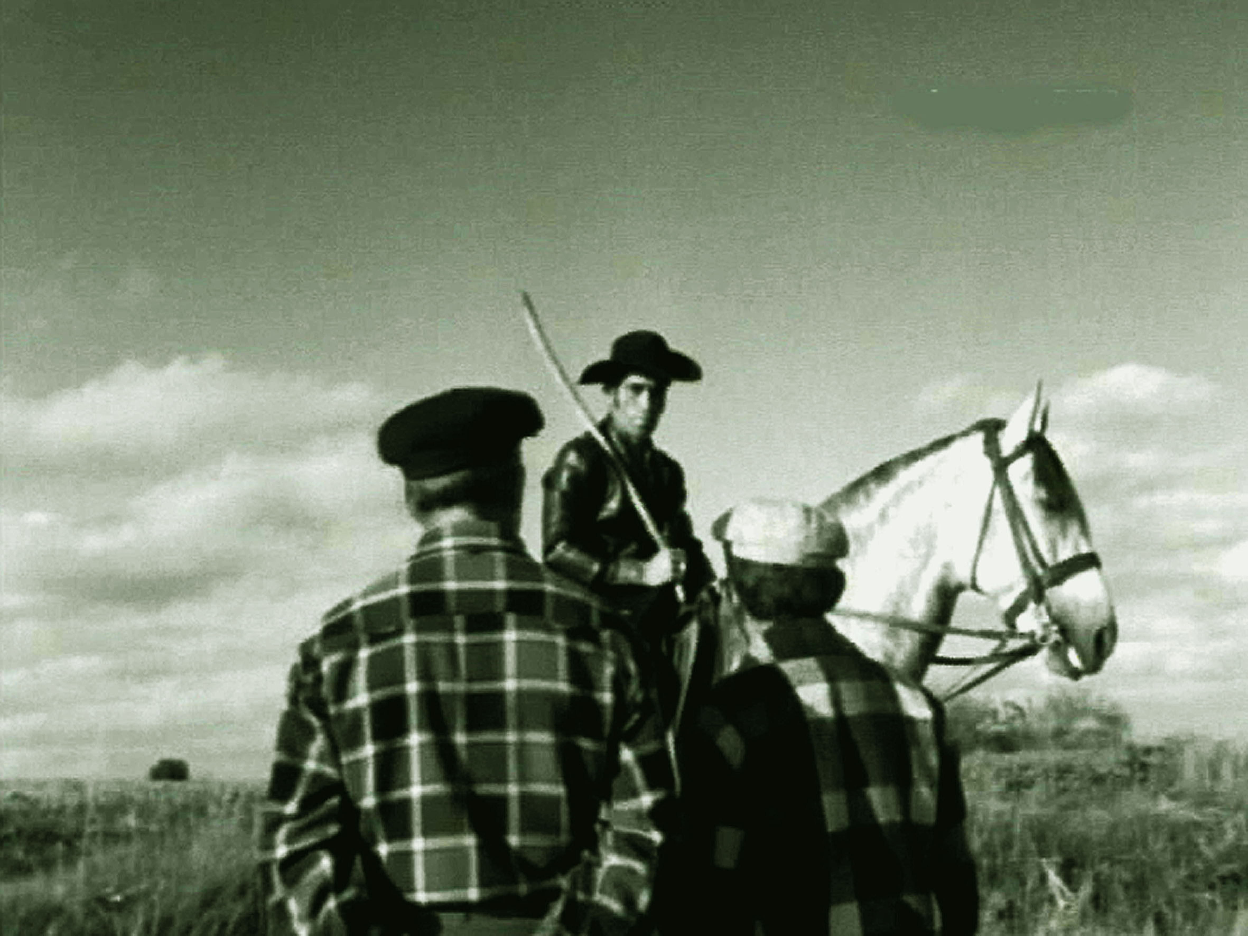 Manuel Pardal and his old friend in trouble